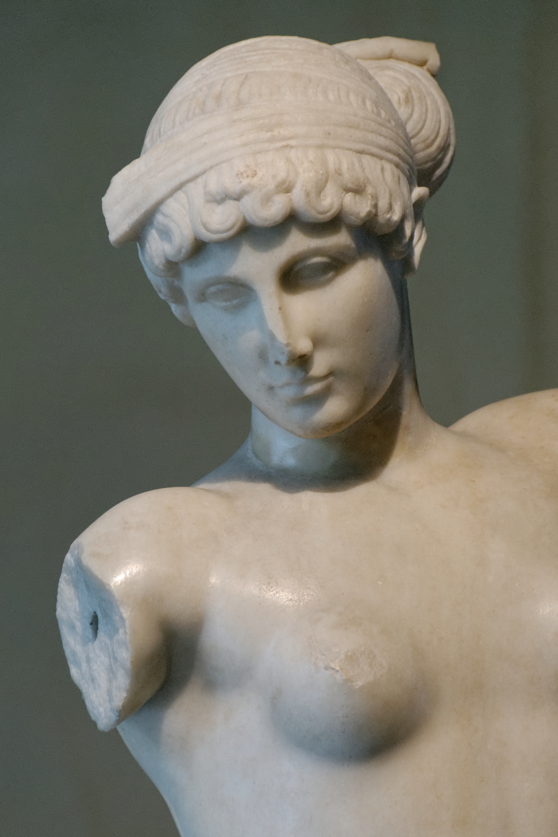 Statue of Aphrodite emerging from the water, maybe an idealized portrait of Cleopatra VII of Egypt. Late Hellenistic artwork.